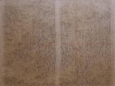 Bożenna Biskupska. Obraz Wytyczanie obrazu.